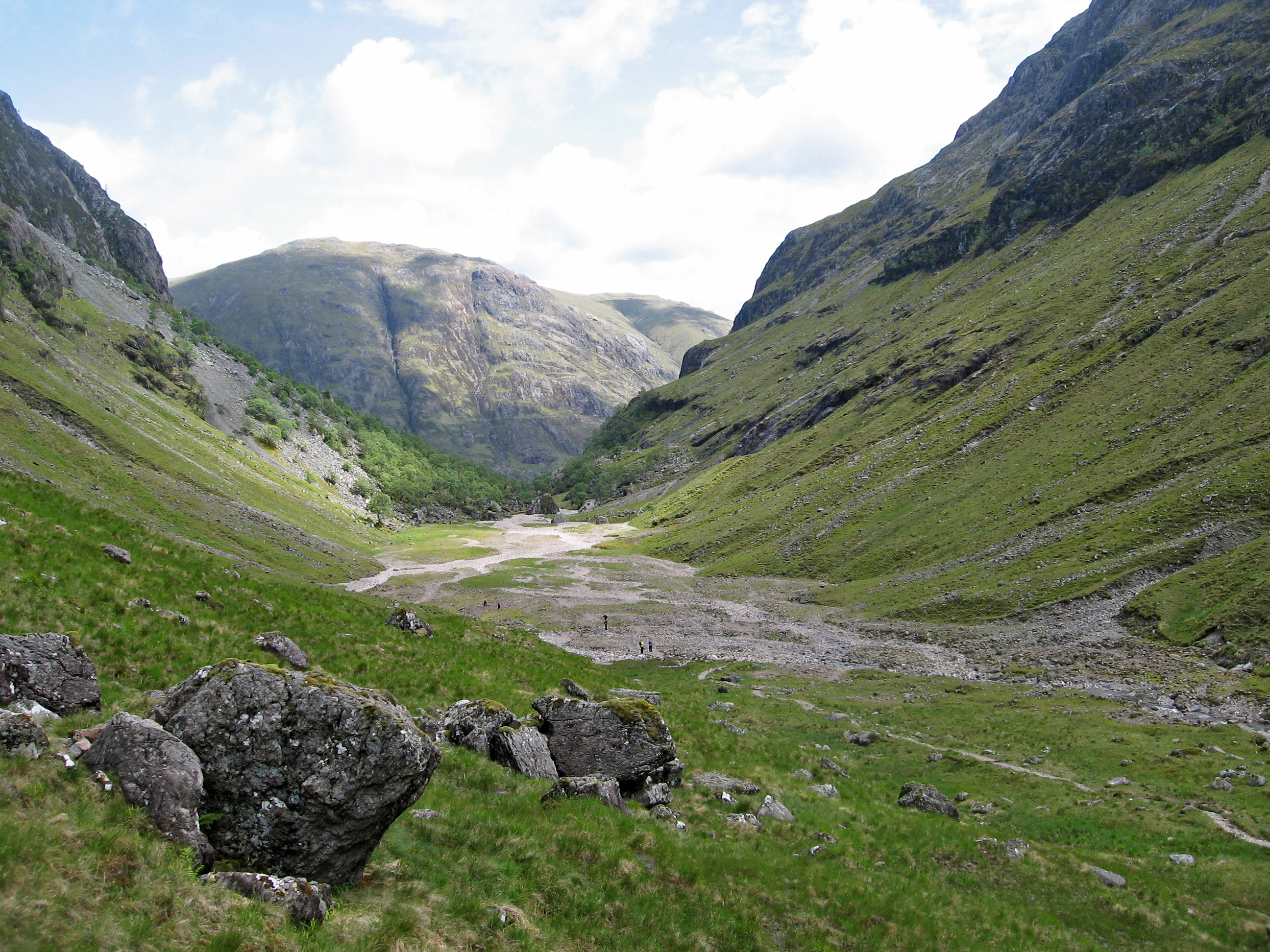 Coire Gabhail, the Lost Valley of Bidean nam Bian in Glen Coe. View north over flat part of valley to the narrow entrance to the Lost Valley, and beyond that the Aonach Eagach ridge on the other side of Glen Coe.